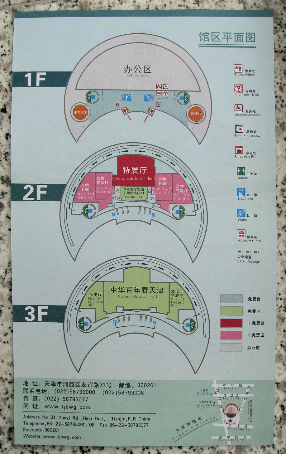 Tianjin museum, floor plan on official information leaflet (small, lowres)